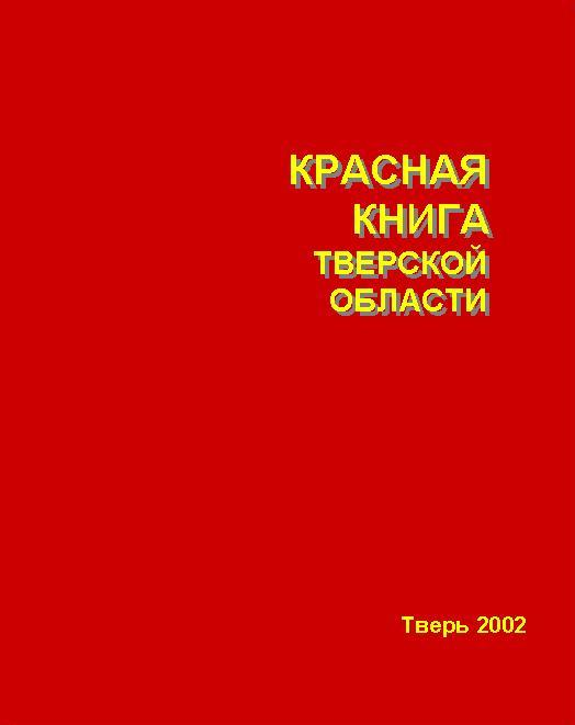 The IUCN Red List of Threatened Species. Tver Oblast.2002